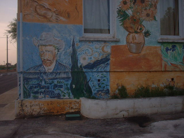 Views of Gallician - a small village near Vauvent in Southern France - Not far from Nimes. The village has a schoolcalled the Van Gogh School and there are murals on the walls both outside and in the playground